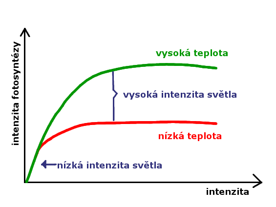 Photosynthesis - temperature and light graph